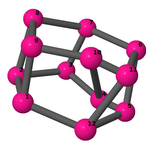 One of 85 simple cubic graphs with 12 vertices.